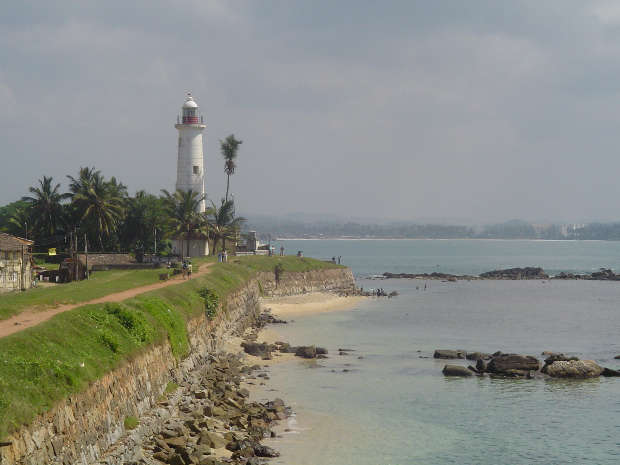 The old fortress in Galle, Sri Lanka